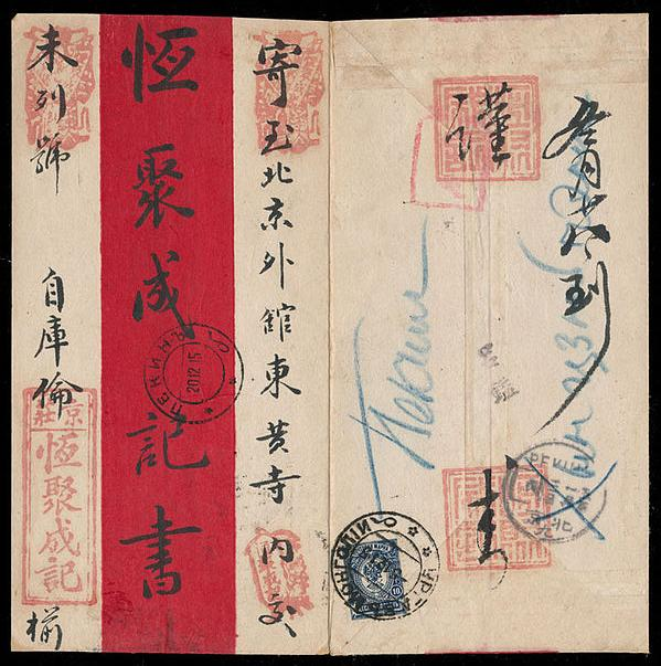 A 1915 cover, red band from Urga to Beijing, franked by a Russian Imperial stamp 10k dark blue, cancelled with "Urga v Mongolii" date stamp, postmarked on arrival, Tchilinghirian.